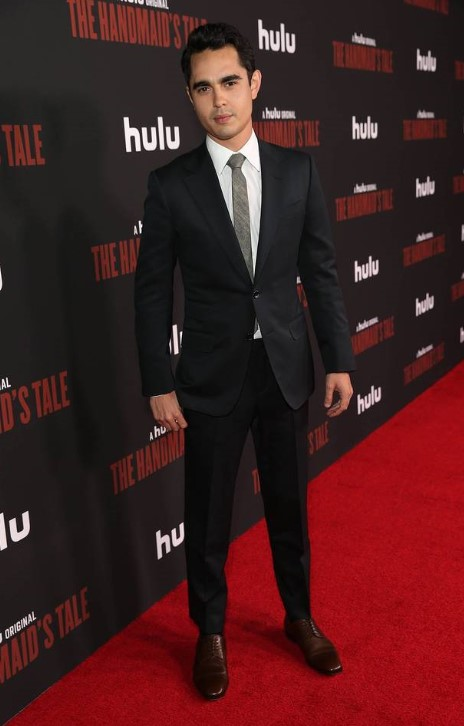 Max Minghella on the red carpet for The Handmaid's Tale